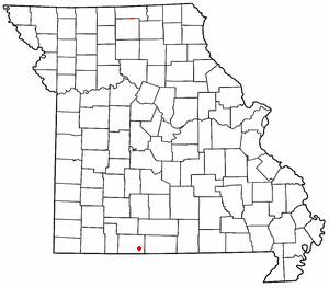 Modified from a map on Wikipedia.